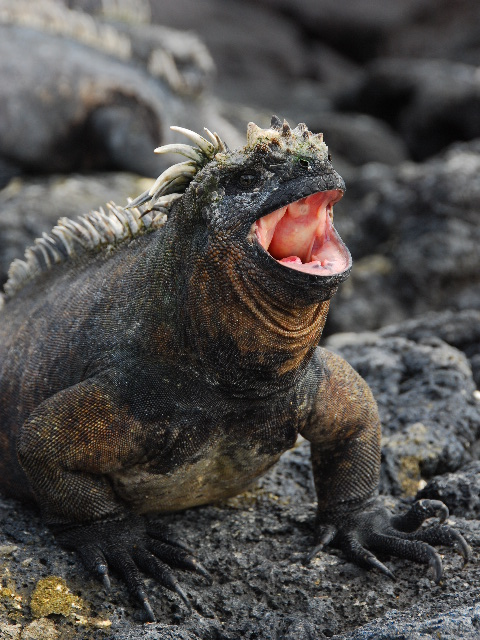 Fat Marine Iguana opens wide!